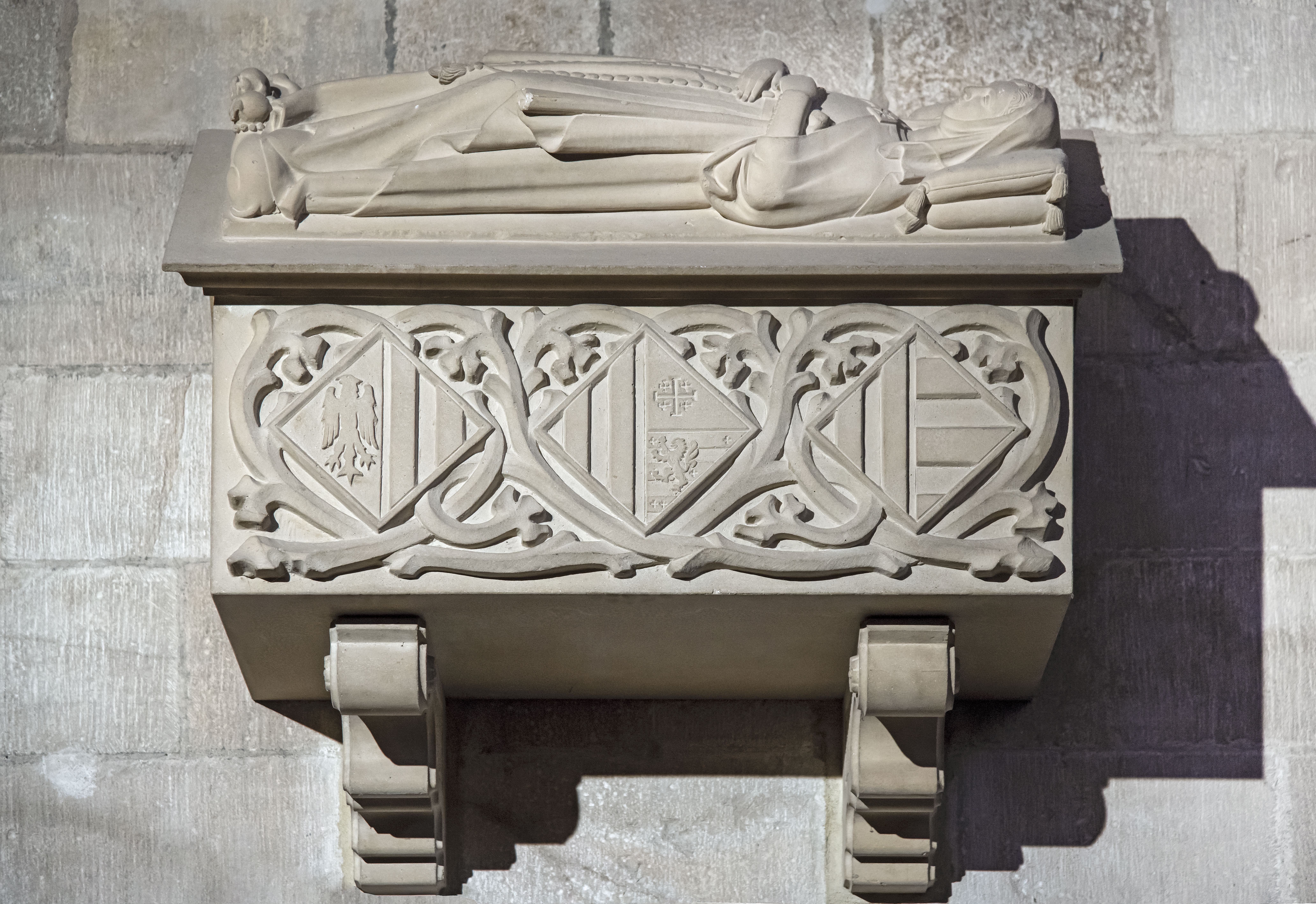 The Cathedral of the Holy Cross and Saint Eulalia in Barcelona. Royal tombs in the Cathedral of Barcelona: Queen's Urn. Constance of Sicily, Queen of Aragon; Marie of Lusignan, Queen of Aragon; Sibila of Fortia; Eleanor of Aragon, Queen of Cyprus.